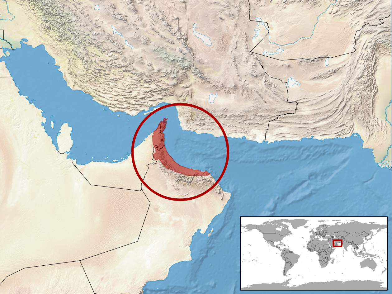 geographic distribution of Echis omanensis (Native: Oman; United Arab Emirates)